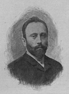 Gyula Stetka